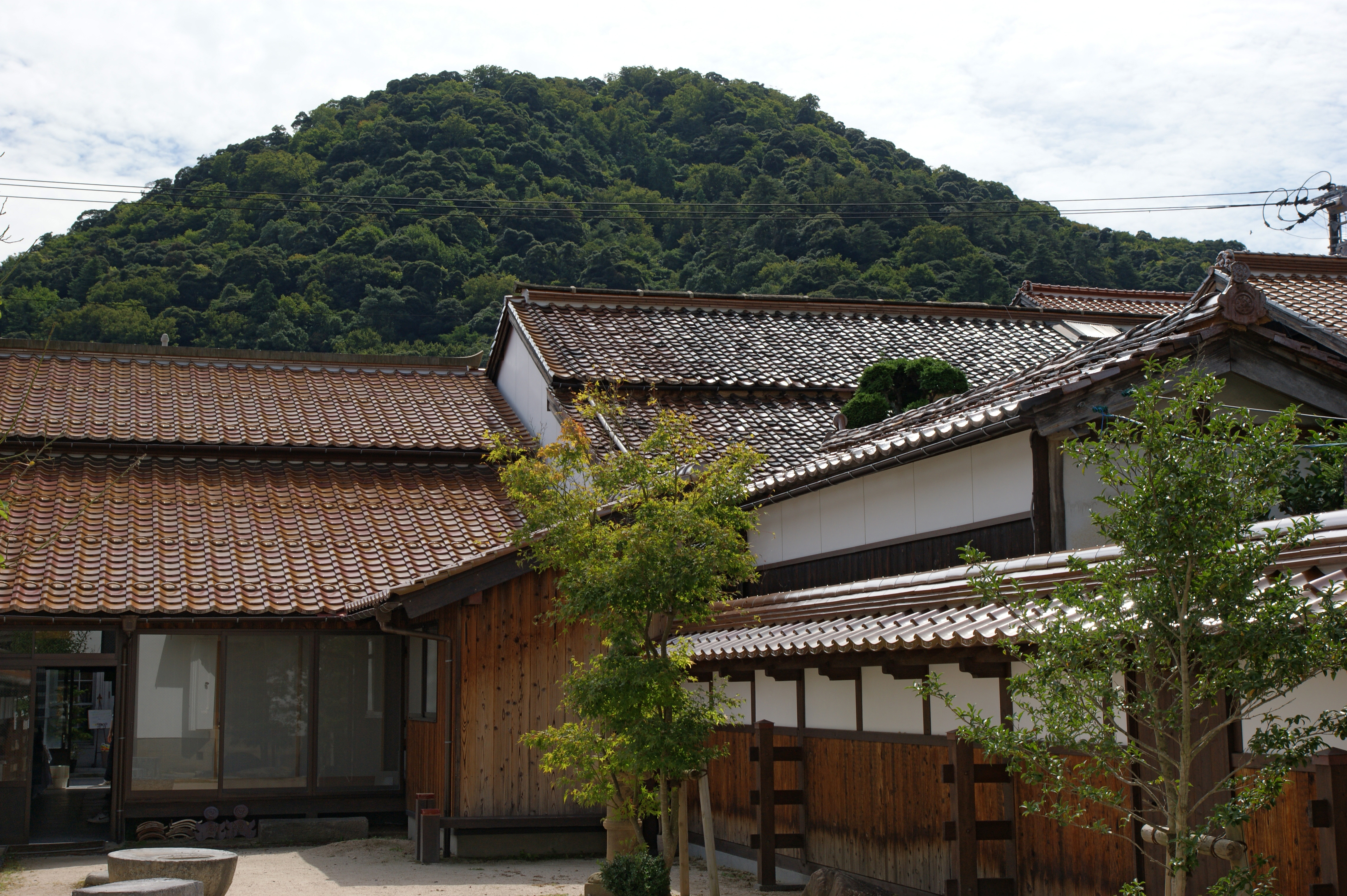 Mt. Utsubuki and Utsubuki-tamagawa in Kurayoshi, Tottori prefecture, Japan